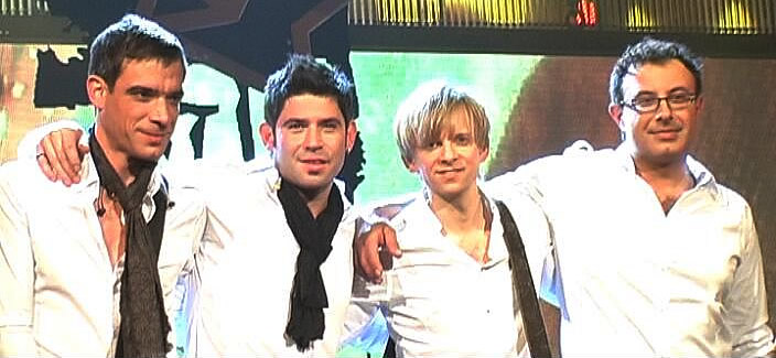 Marquess, Hamburg 2008